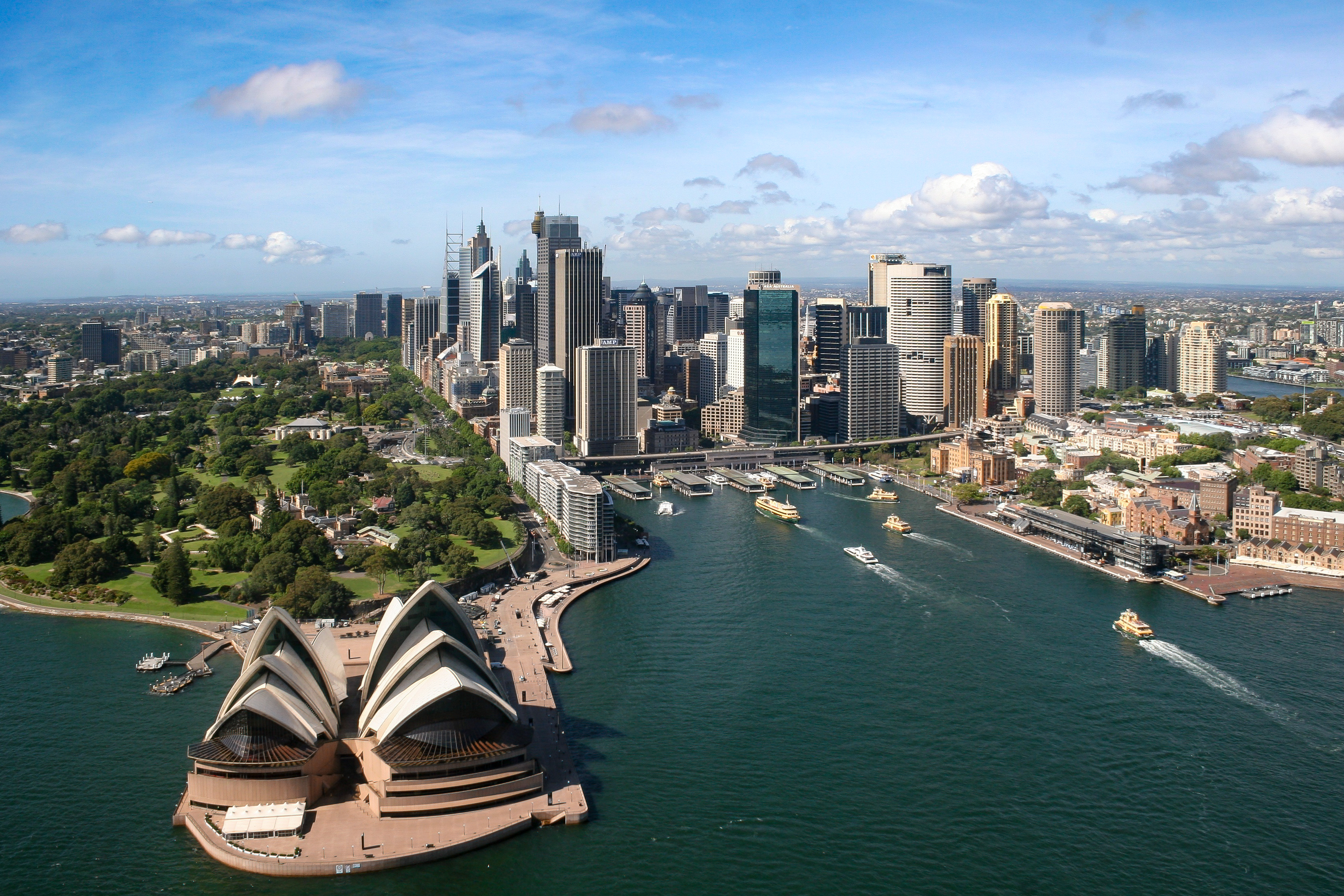 Aerial view of the Sydney skyline from the north.